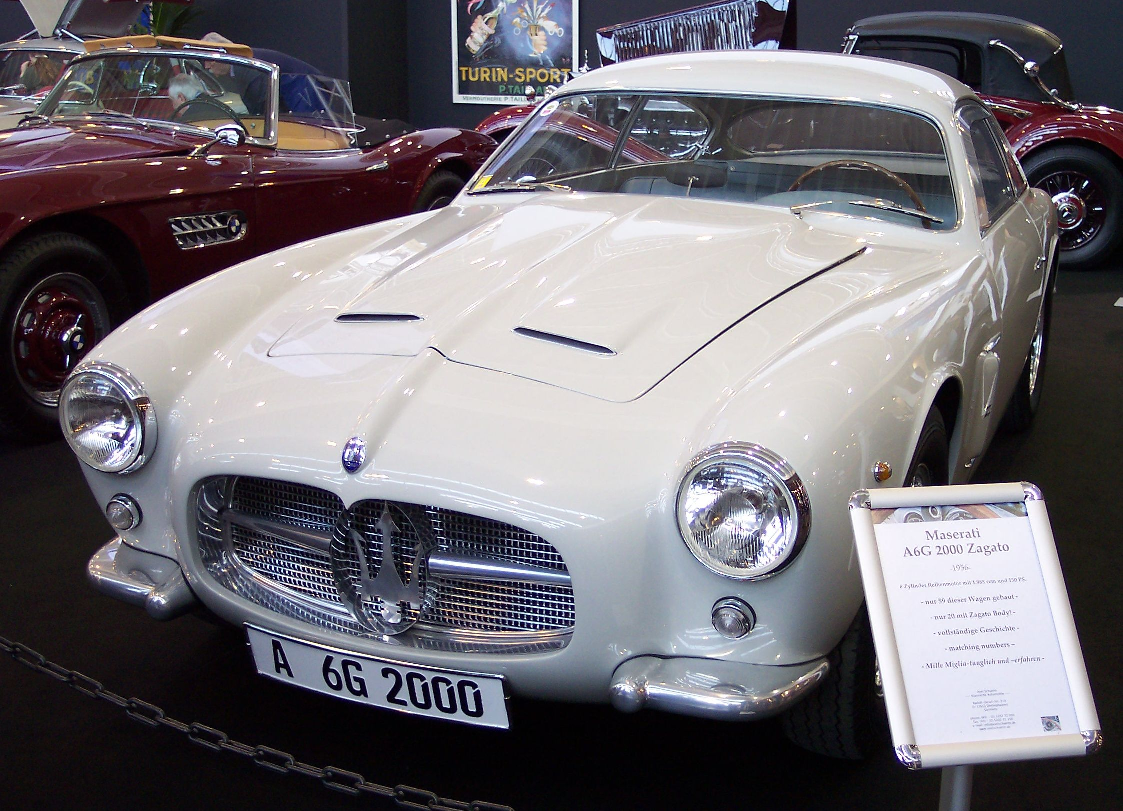 Essen Techno-Classica 2007, Maserati A6G 2000, 1956